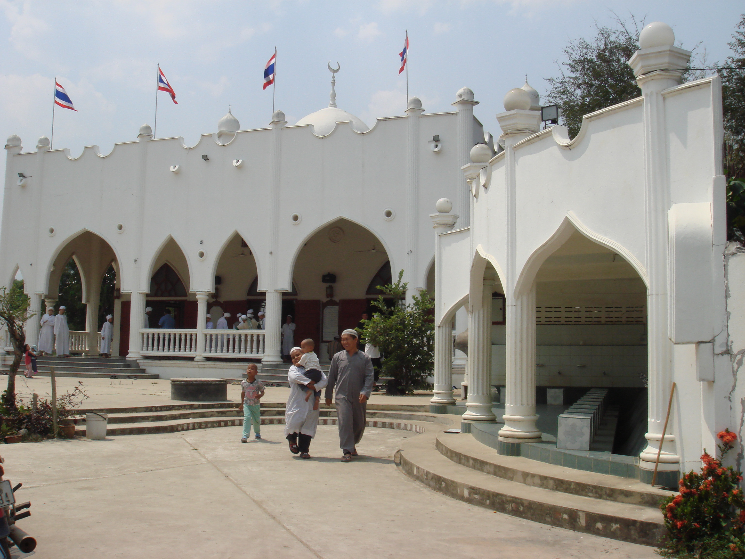 Pai Mosque, located at Amphoe Pai, Mae Hong Son Province, Thailand.